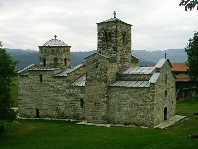 Đurđevi stupovi Monastery near Berane, Montenegro